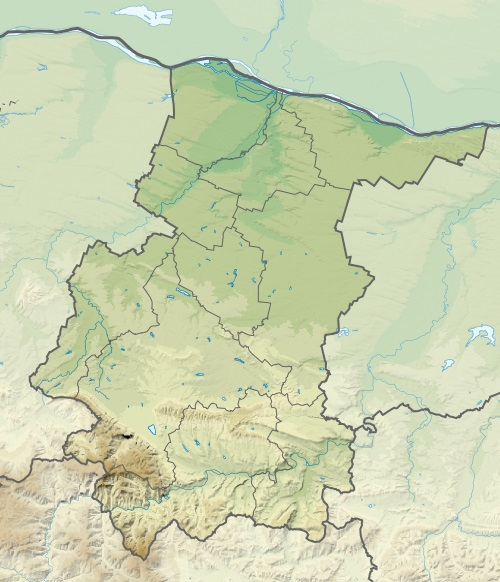 Physical Location map Vratsa province, Bulgaria. Geographic limits of the map